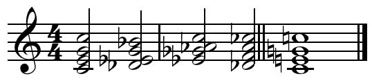 Tadd Dameron turnaround with resolution. Created by Hyacinth (talk) 06:34, 15 December 2010 using Sibelius 5.